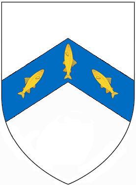 Arms of Peniles (alias Pennells, Peverel) of Luckton (alias Lupton) in the parish of Brixham, Devon: Argent, on a chevron azure three fishes or (Pole, Sir William (d.1635), Collections Towards a Description of the County of Devon, Sir John-William de la Pole (ed.), London, 1791, p.496). These arms are visible as the 4th of 8 quarterings of the arms of Sir William Strode (1562–1637) of Newnham on his mural monument in St Mary's Church, Plympton St Mary, Devon.. Also visible in the Yarde Window of nearby Churston Ferrers Church (with fish sable not or).